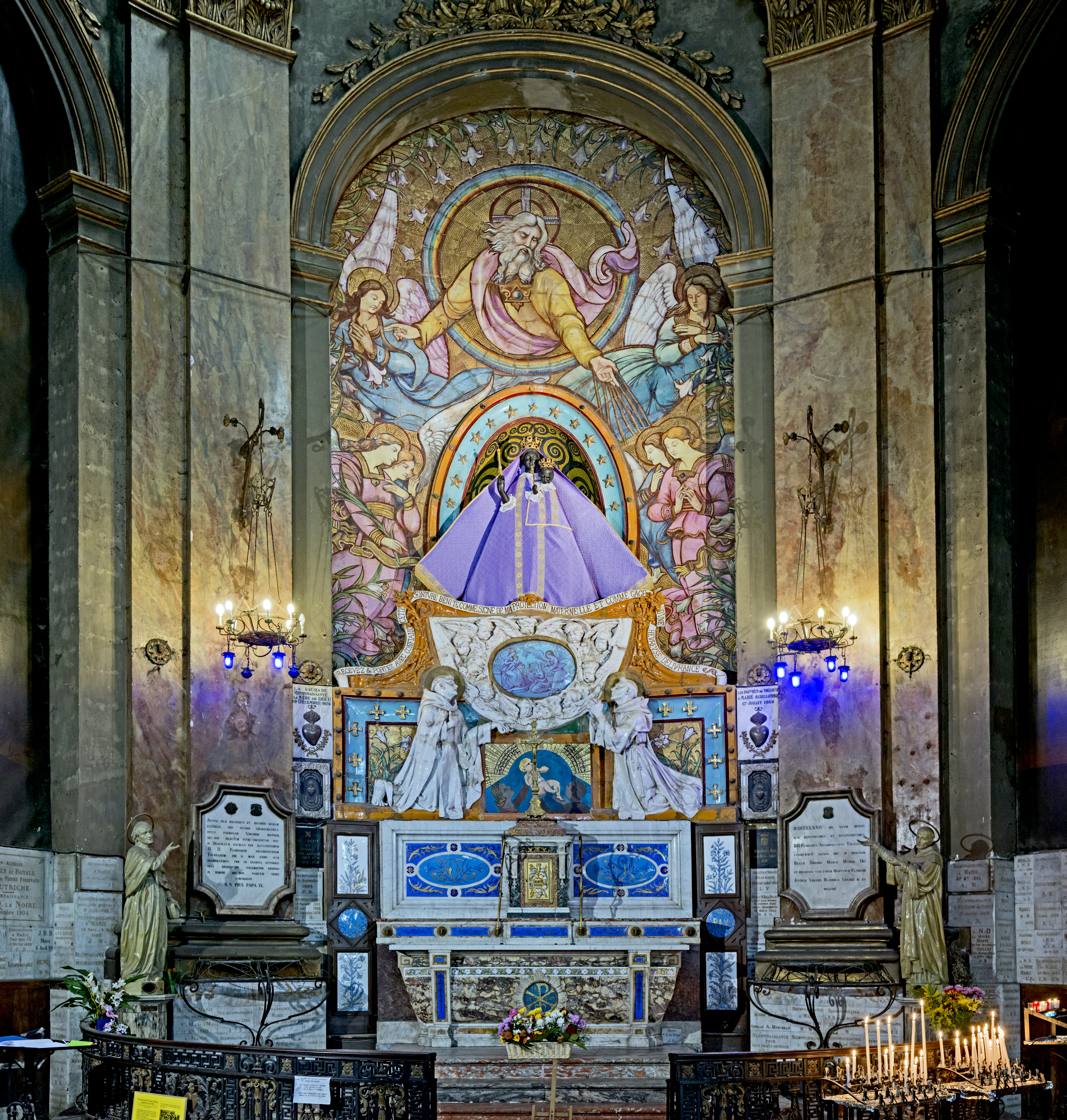 Black Madonna, Basilica of Notre-Dame de la Daurade in Toulouse. Ceramic altar by Gaston Virebent .